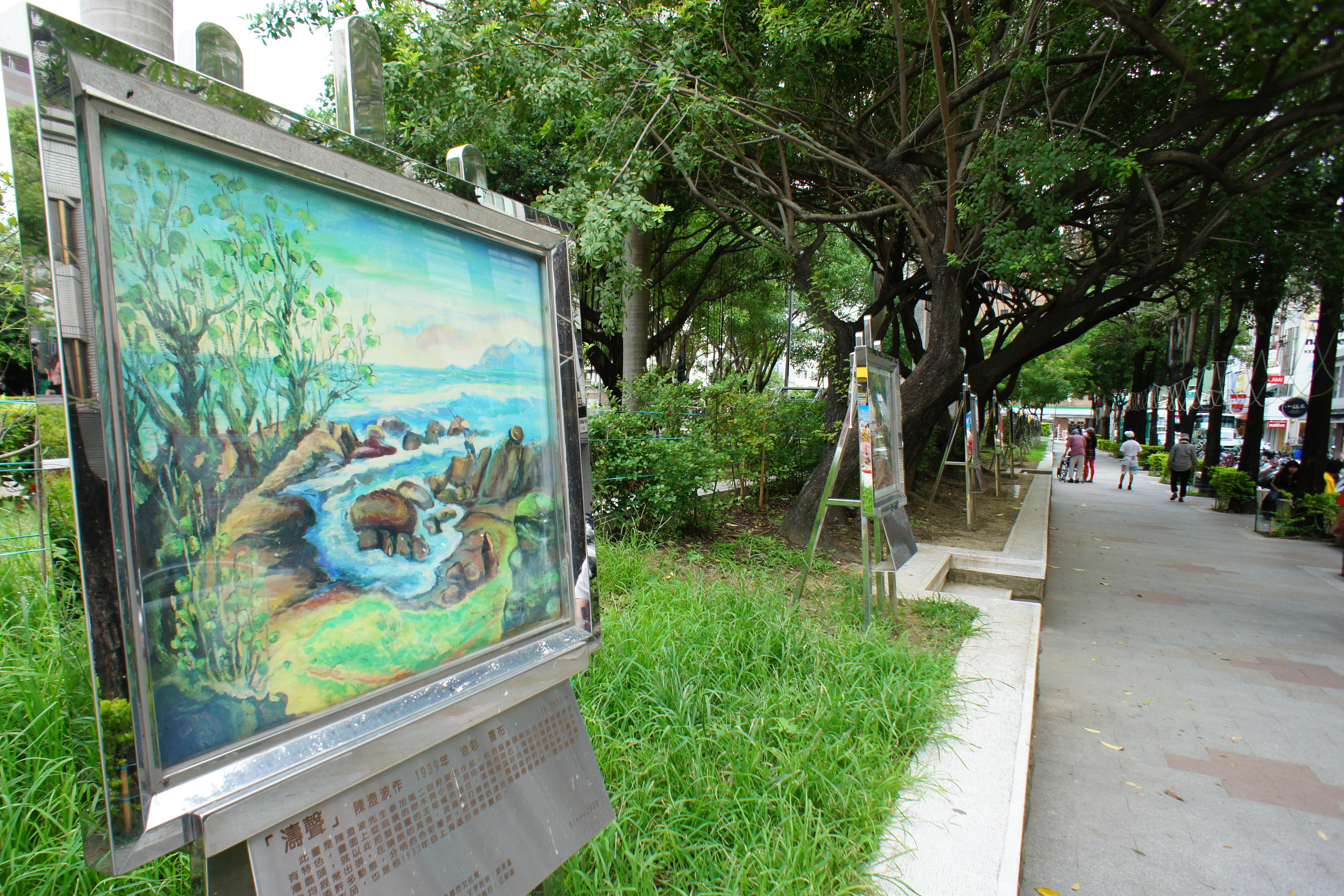 Chen Cheng-Po painting replicas in Chung Cheng Park, Chiayi City, Taiwan.